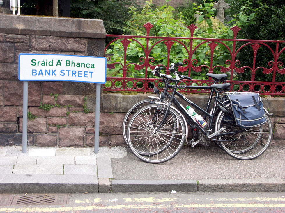 Bilingual signage in Fort William with bicycles